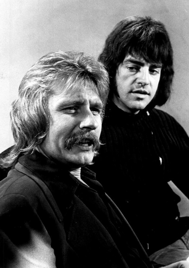 Photo of Paul Revere and Mark Lindsay.